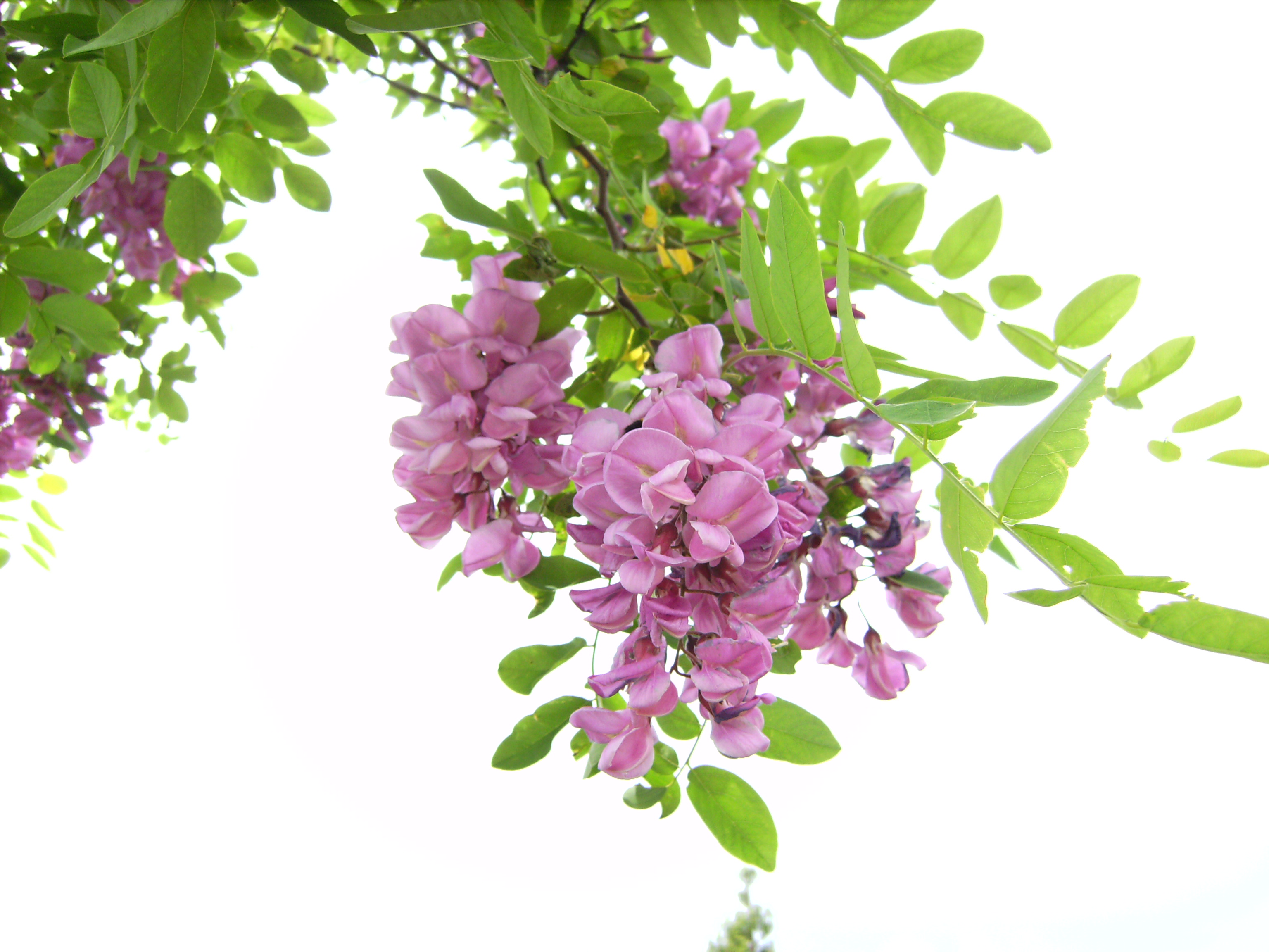 Robina pseudoacacia (a rose cultivar) flowers. Castelltallat Catalonia